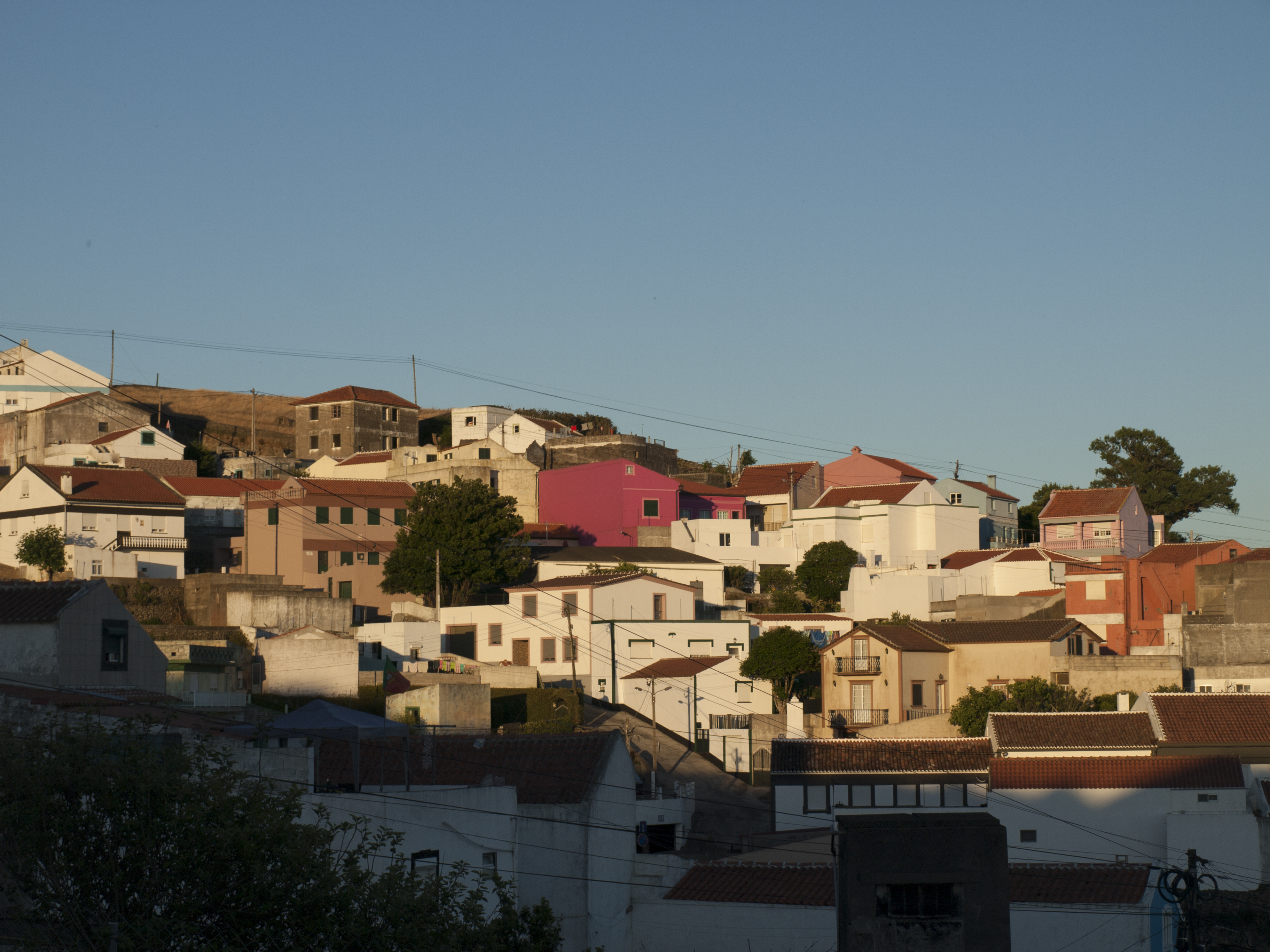 Panorama of Ribeirinha, Angra do Heroismo, from Canada do Fransisco Alves